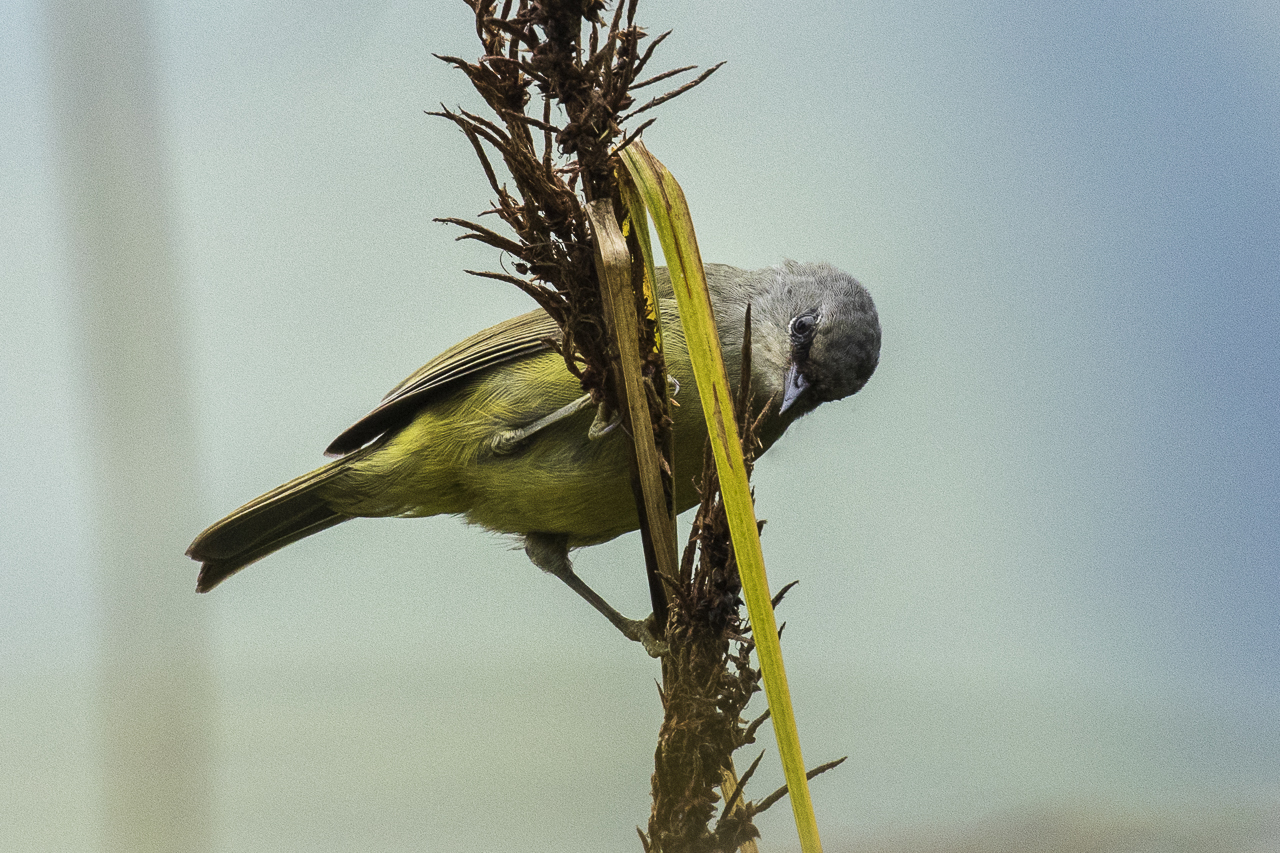 Javan Grey-throated White-eye - Ijen - East Java_MG_7910